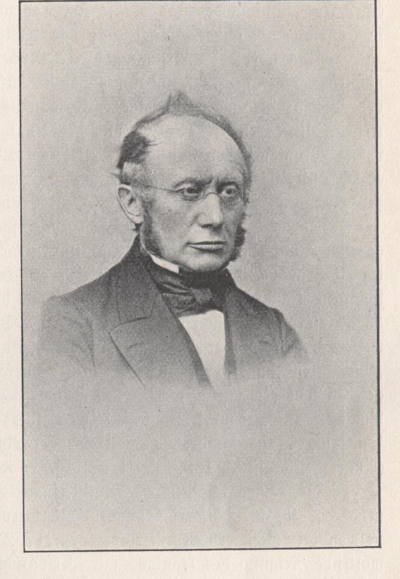 Ludwig Windthorst German Politician 1860